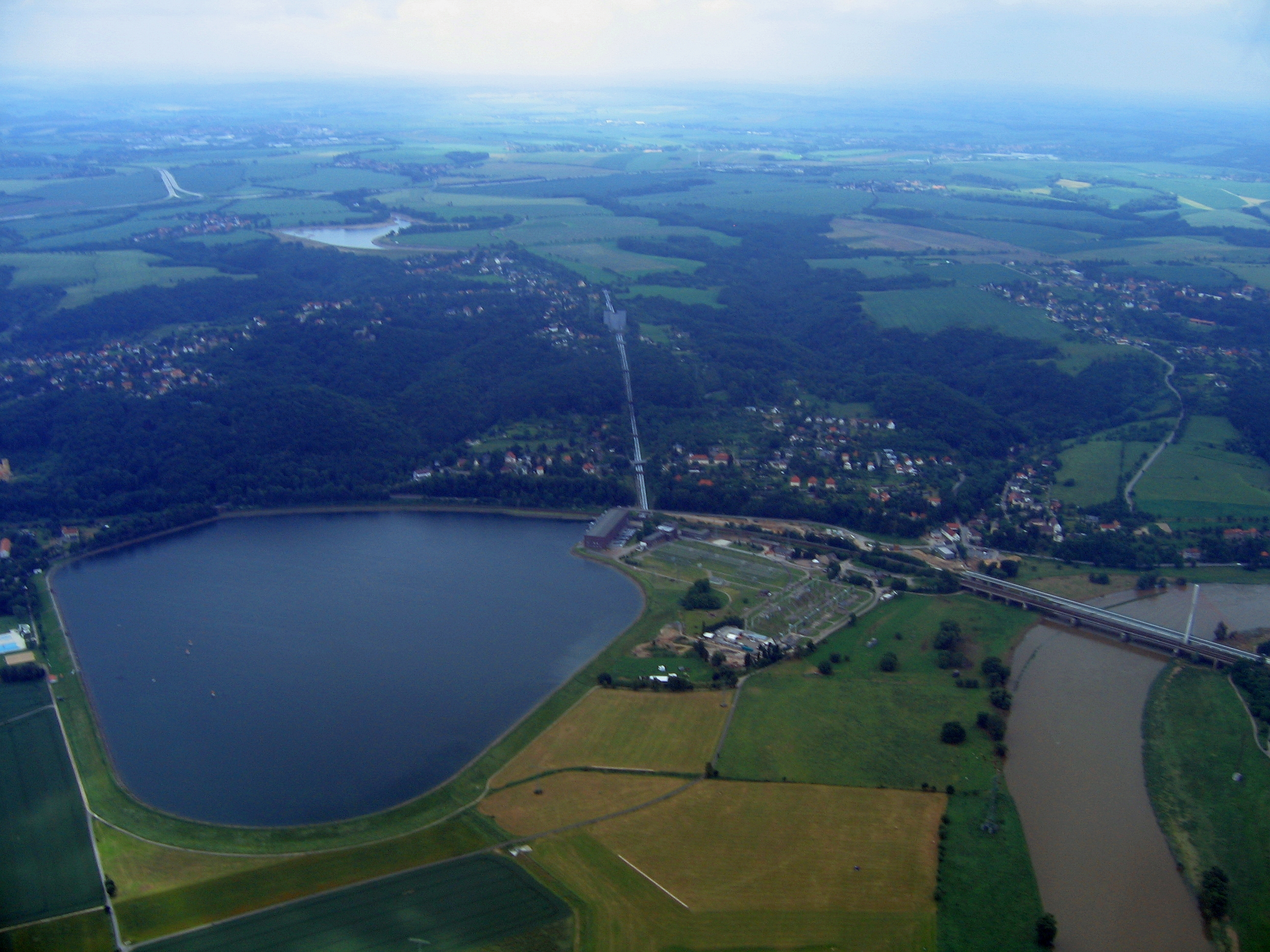 lower and upper reservoir of pumped storage plant Niederwartha, Dresden, Germany, right: river Elbe